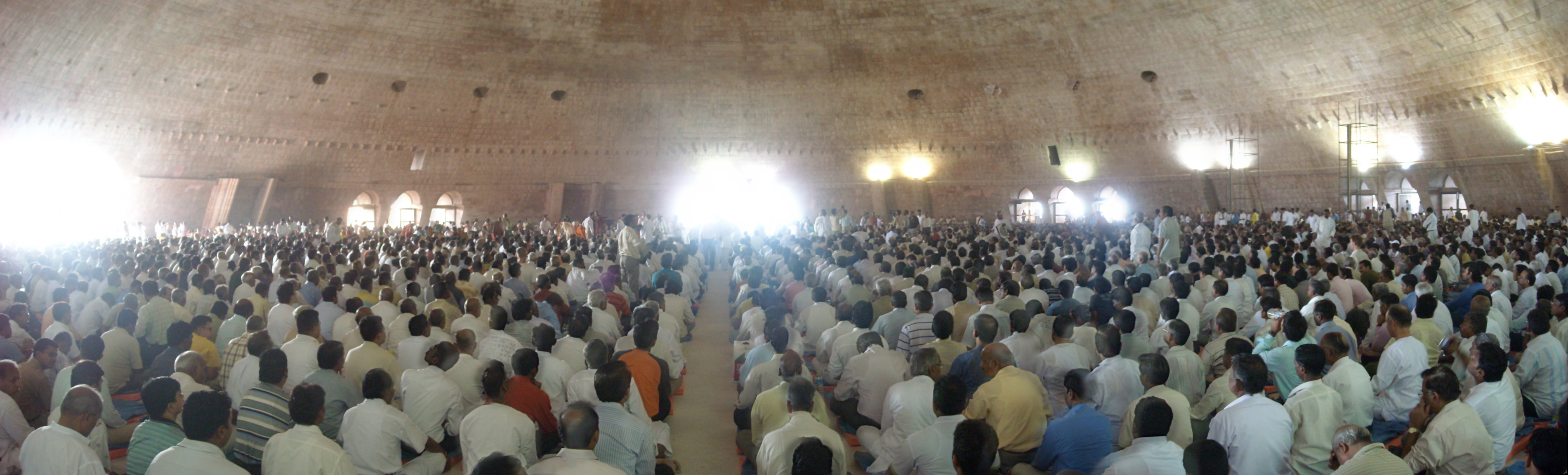 One day meditation course at the Global Pagoda with around 8000 people inside the dome.